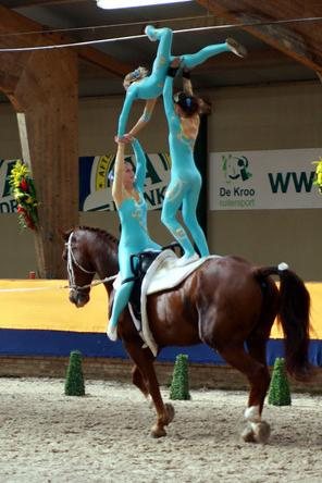 Annelobke van dijk, marijke dikkens, sofie jackson